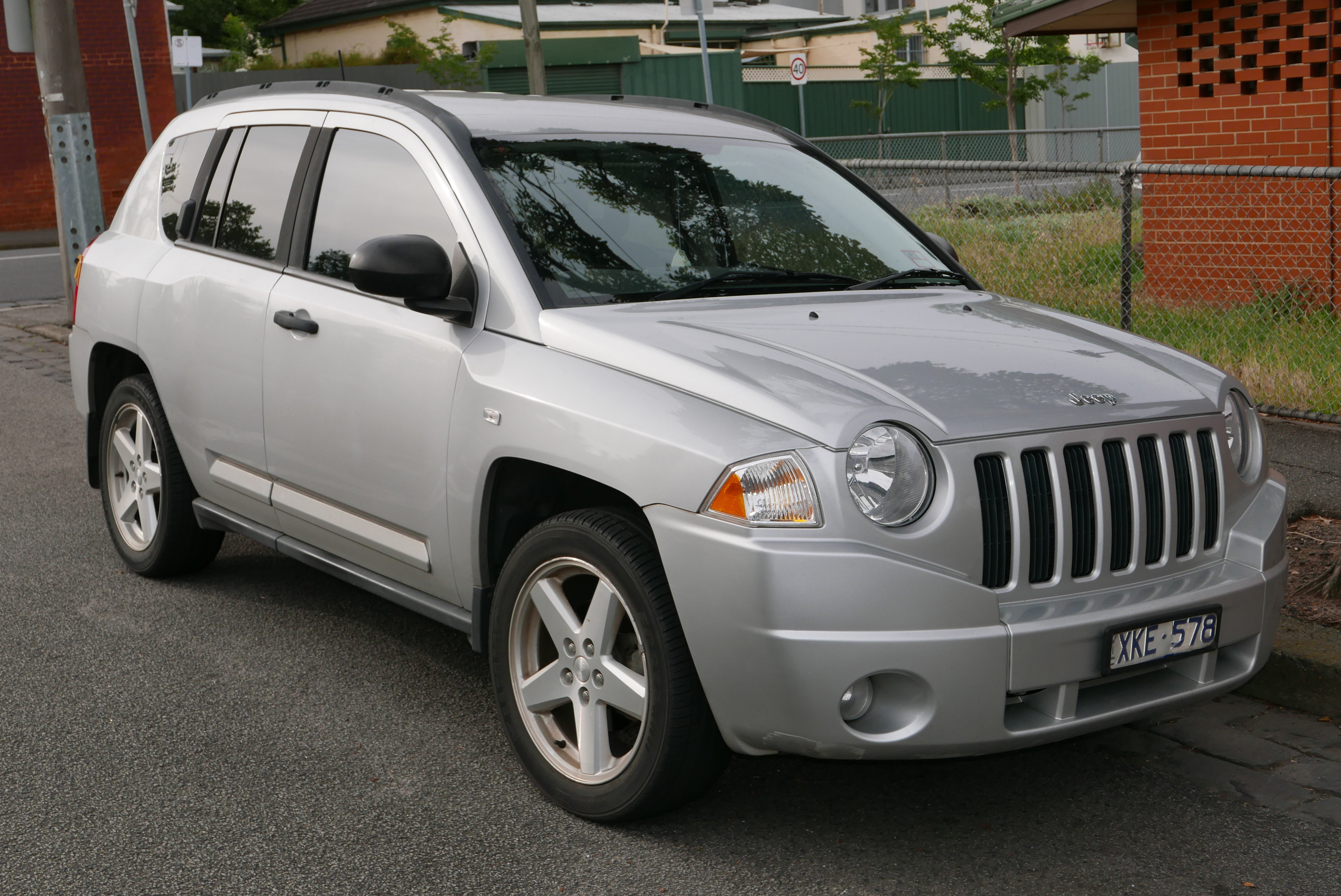 2008 Jeep Compass (MK MY08) Limited 2.4 wagon. Photographed in Flemington, Victoria, Australia. Vehicle registration enquiry resultsJurisdictionVictoriaRegistrationXKE578Chassis code1J8F757W78D535059Engine code8D535059Compliance date2008-09Year of manufacture2007 (not a typo)